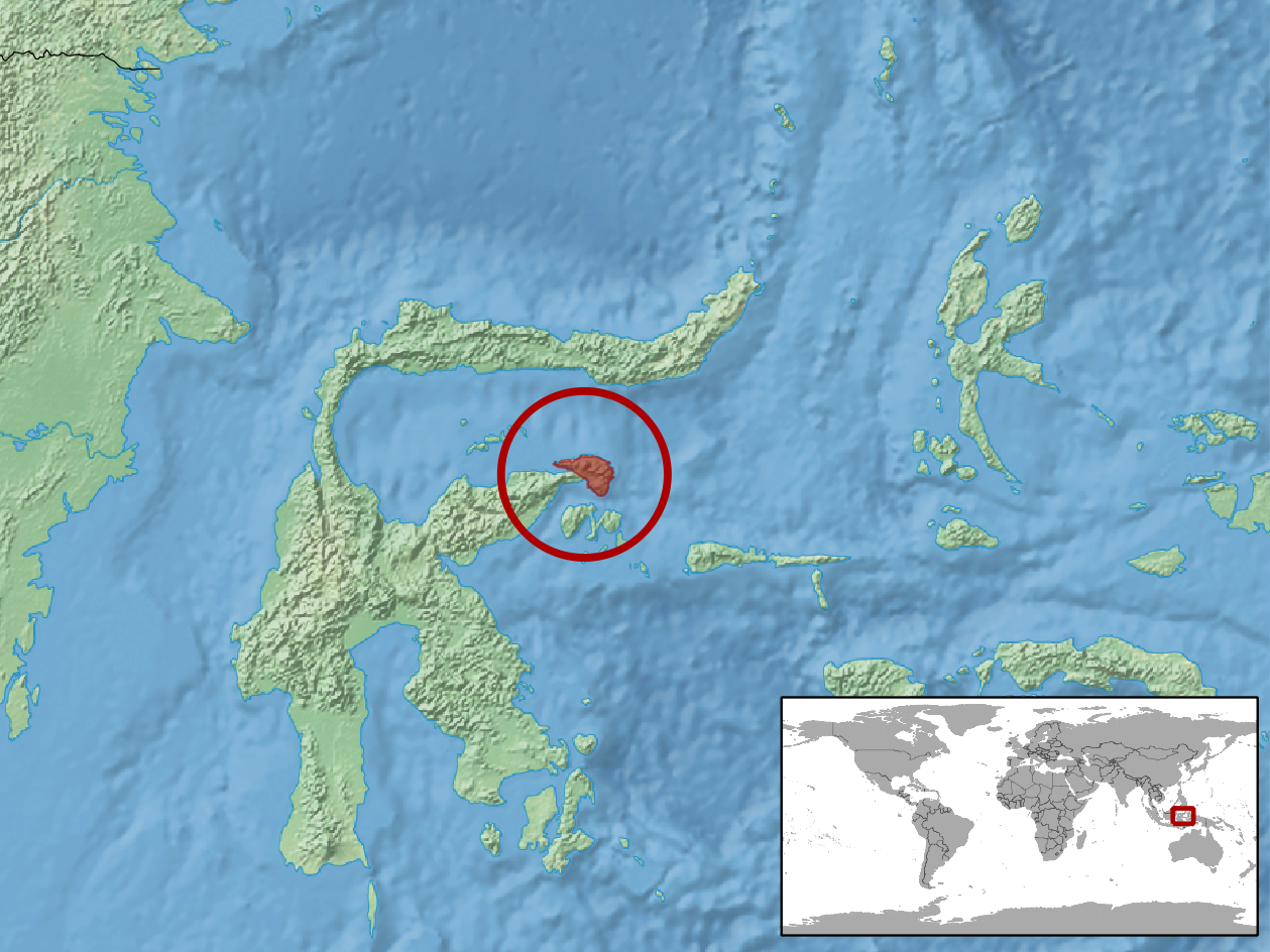 geographic distribution of Luperosaurus iskandari (Native: Indonesia (Sulawesi))